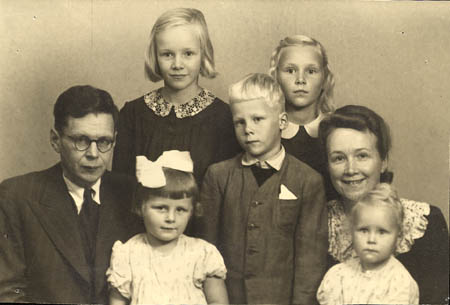 Photograph of the family of Martti Haavio (1899–1973) and Elsa Enäjärvi-Haavio (1901–1951) with their five children.